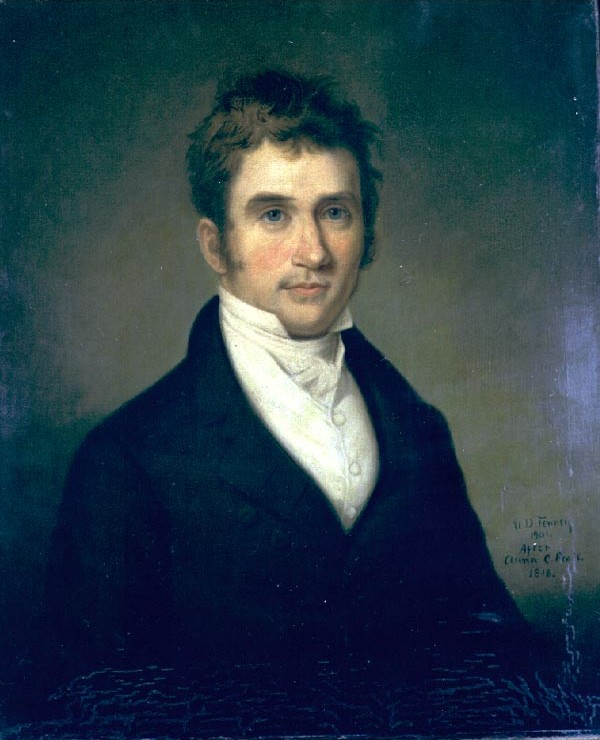 John Branch, Secretary of the Navy, 9 March 1829 - 12 May 1831